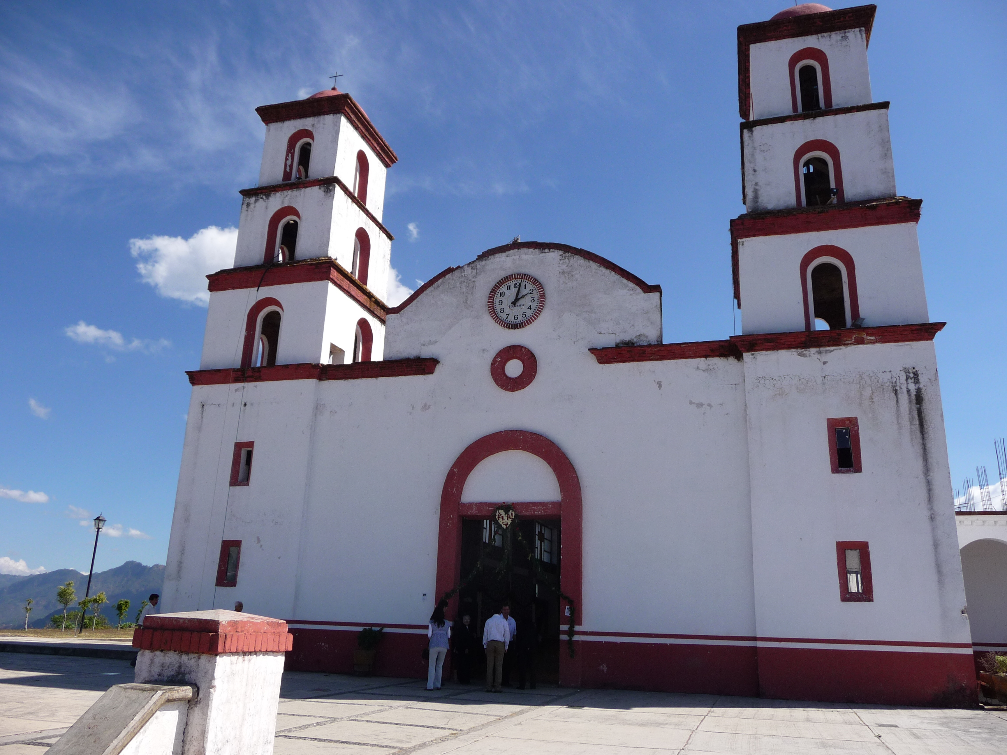 Church of St. Gaspar in Amatepec, Mexico